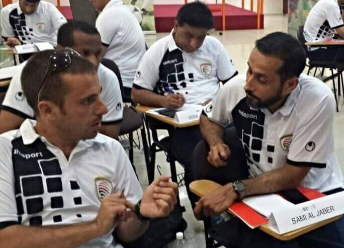 Manuel José Alves Ramos in a talk with Saudi Legend Sami Al-Jaber. 24 May 2015 Al-Seeb Stadium, Seeb, Oman Photographer email id